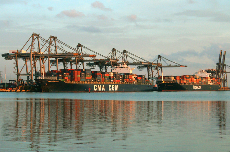 Ships at Southampton